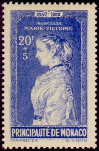 Stamp of Marie Victoire Hamilton